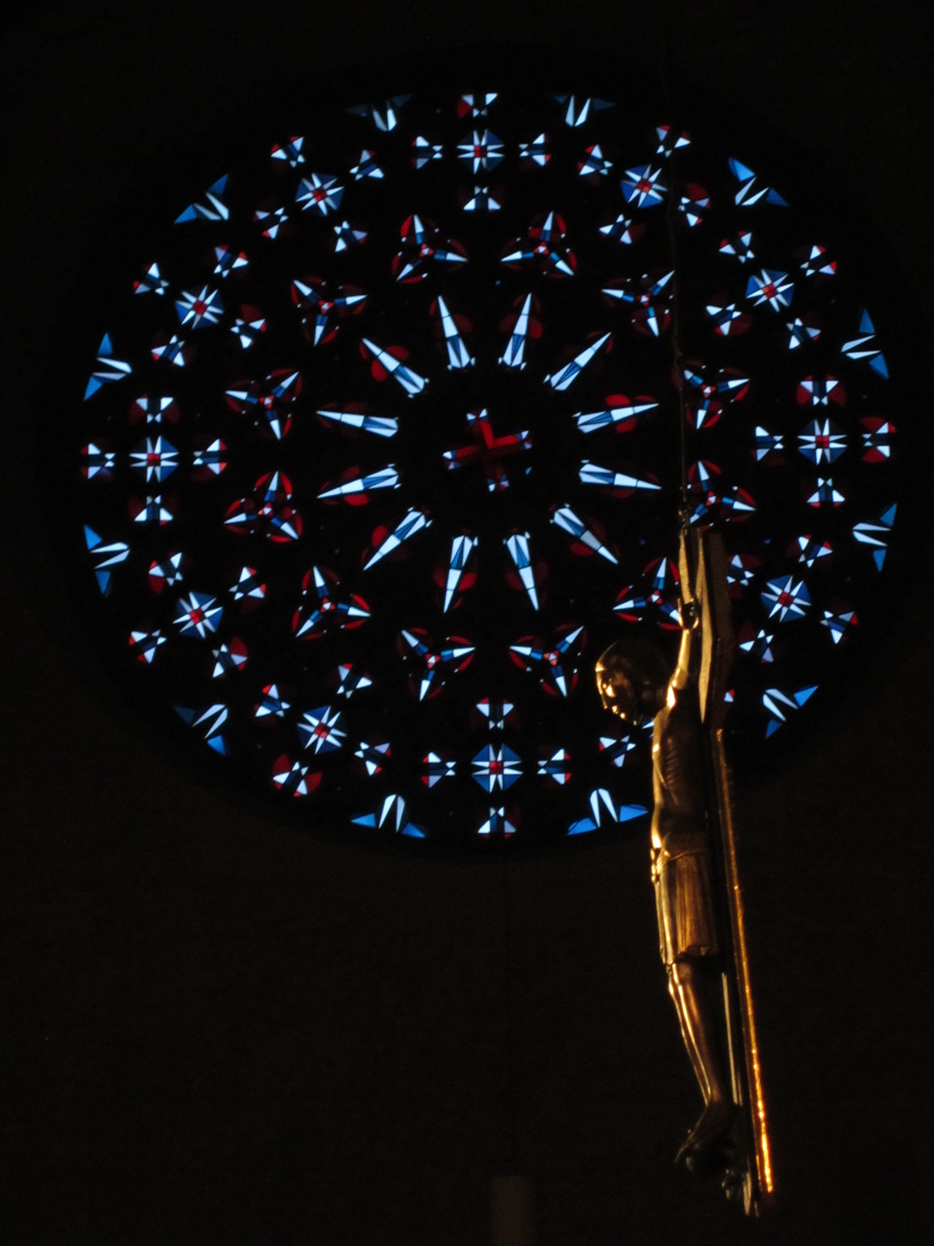 Mindener Kreuz and rosette in Minden Cathedral